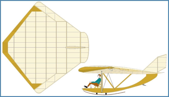 Canova_PC100